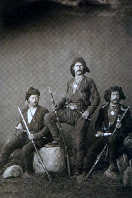 Laz people in 1900s